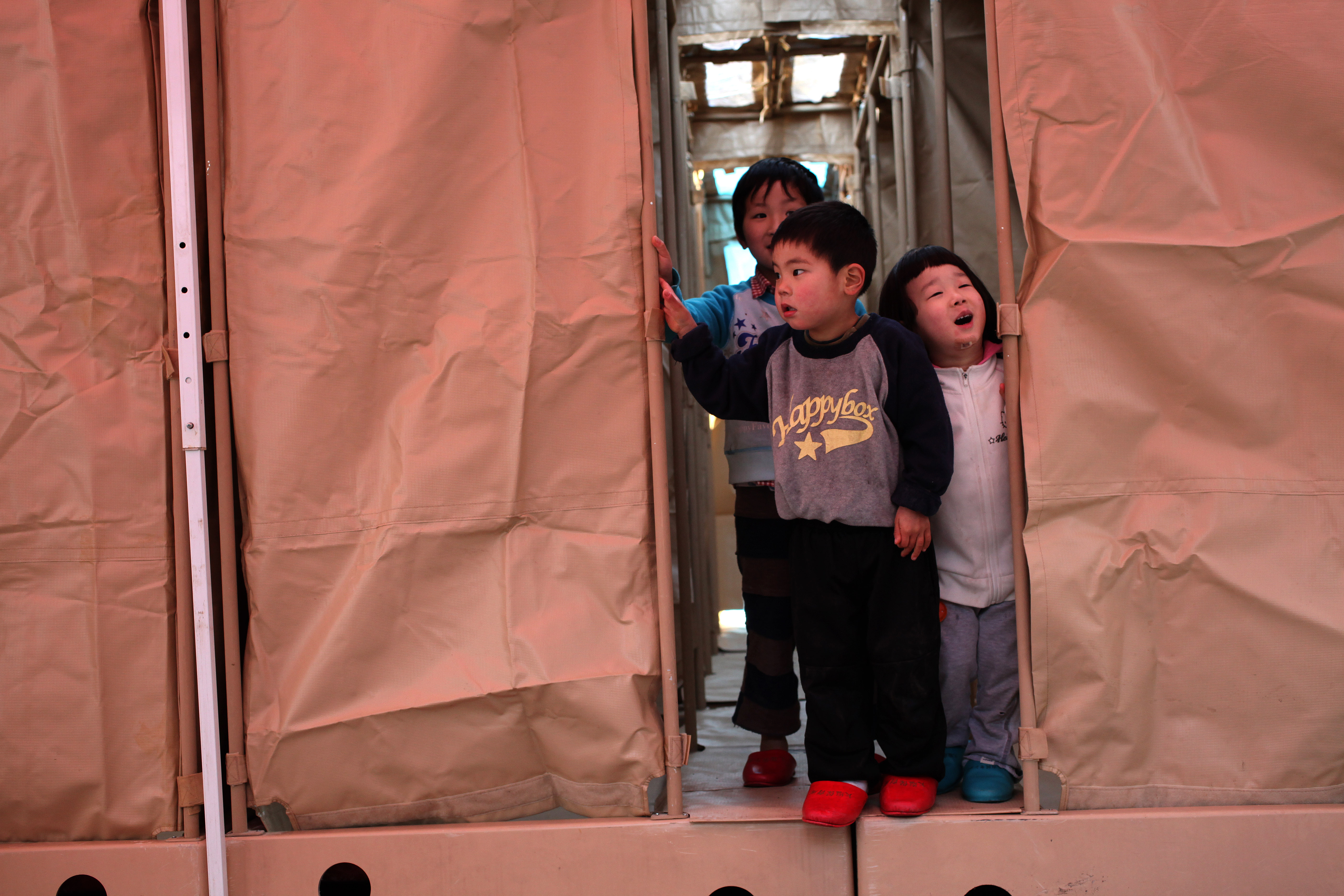 Japanese children explore an emergency field shower unit built by JSDF and USMC personnel at Oshima Community Center following the Sendai earthquake and tsunami.